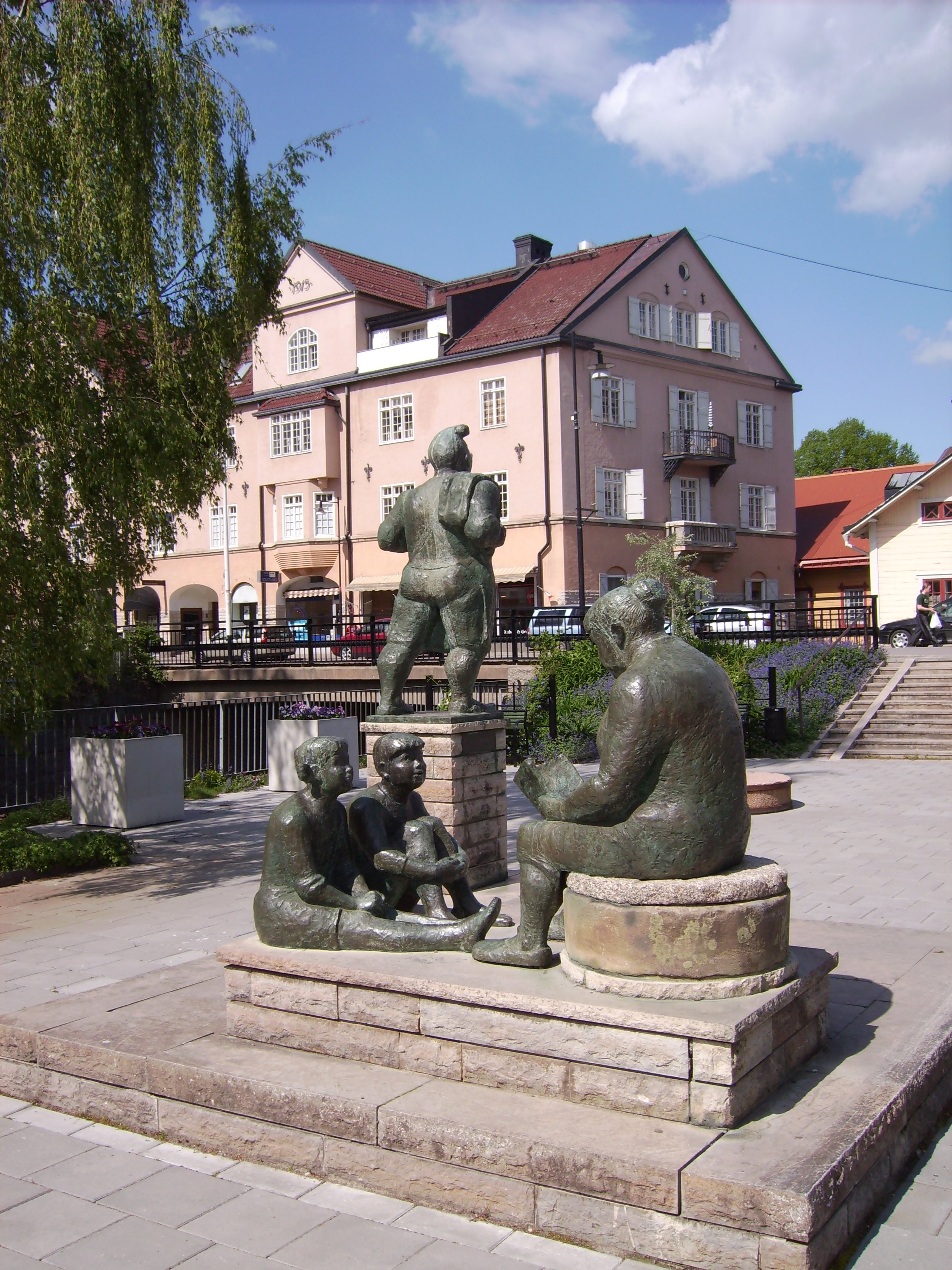 The monument "Mjölnarstatyn" near the stream "Svartån" in Mjölby.